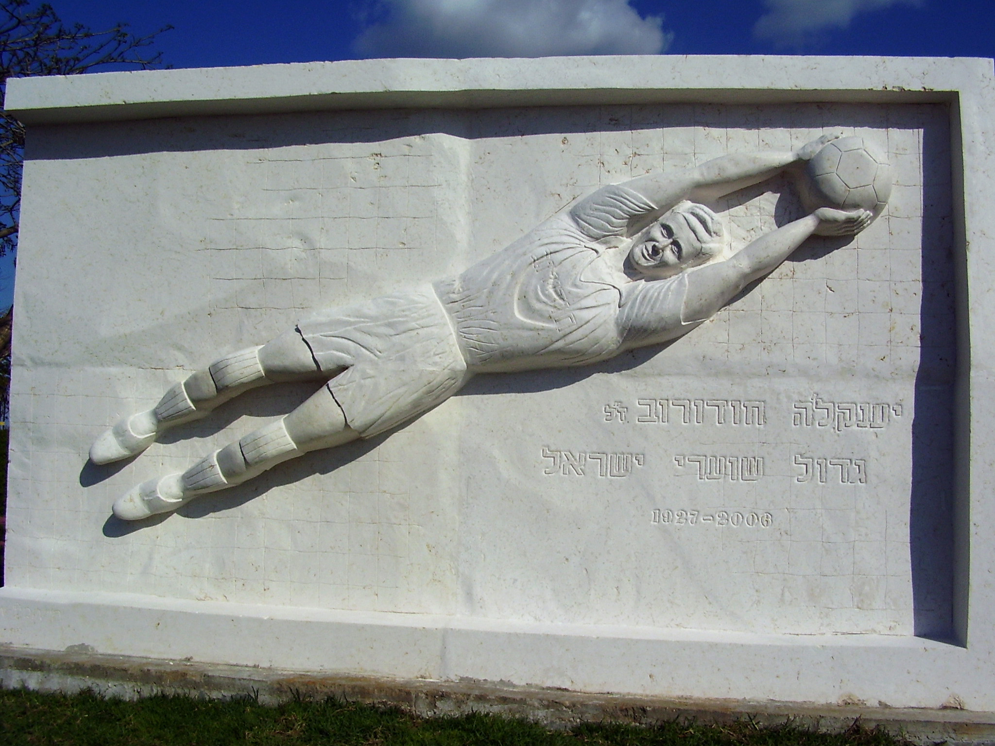 Relife of the Goalkeeper Ya'akov Hodorov in Israel.